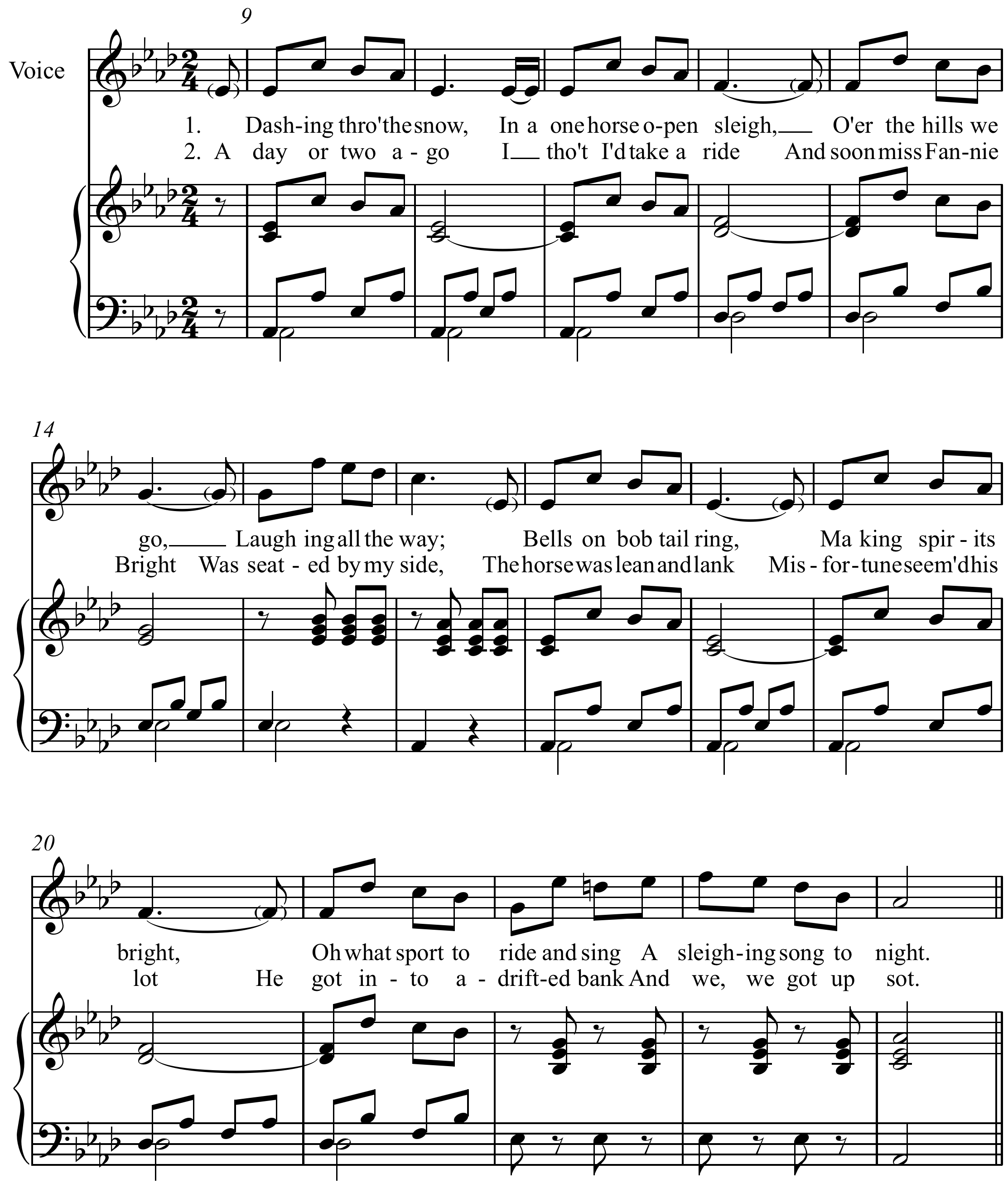 "One Horse Open Sleigh" verse Ab